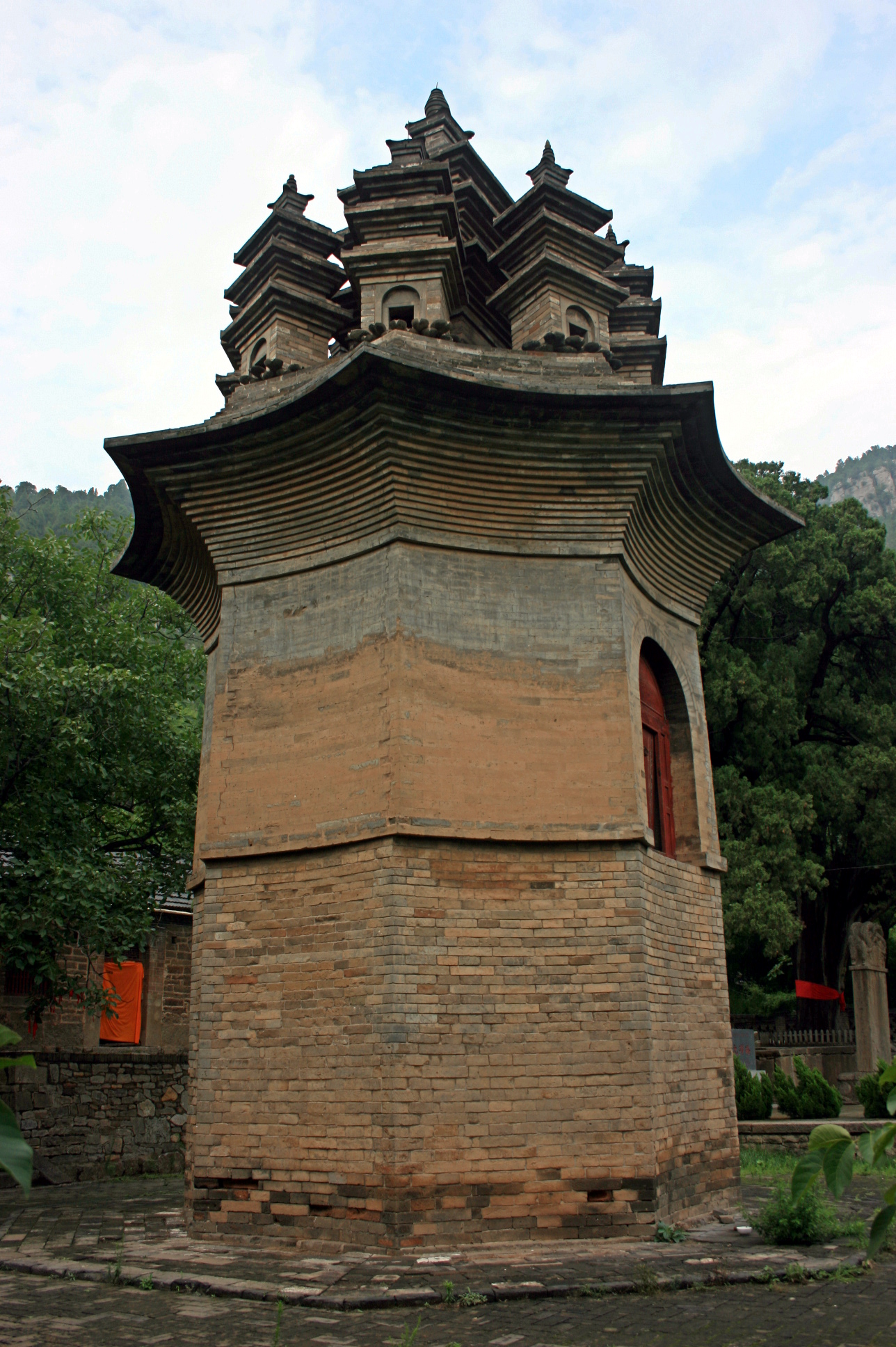 Photograph of the Nine Pinnacle Pagoda in central Shandong Province, China.